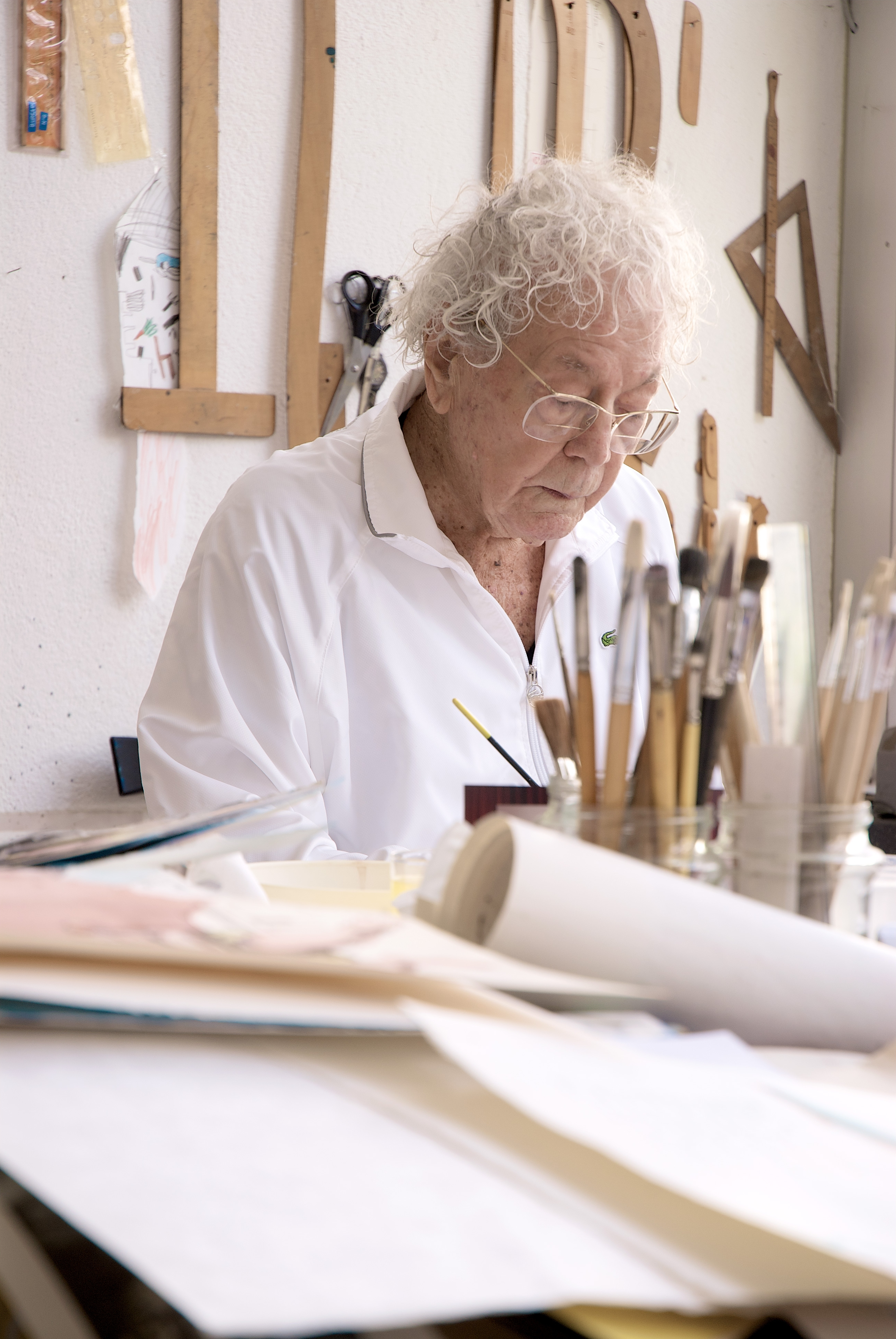 Swiss painter, designer, and sculptor Hans Erni (1909-).